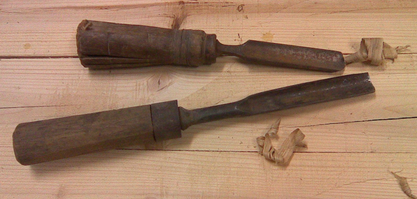 Chisels